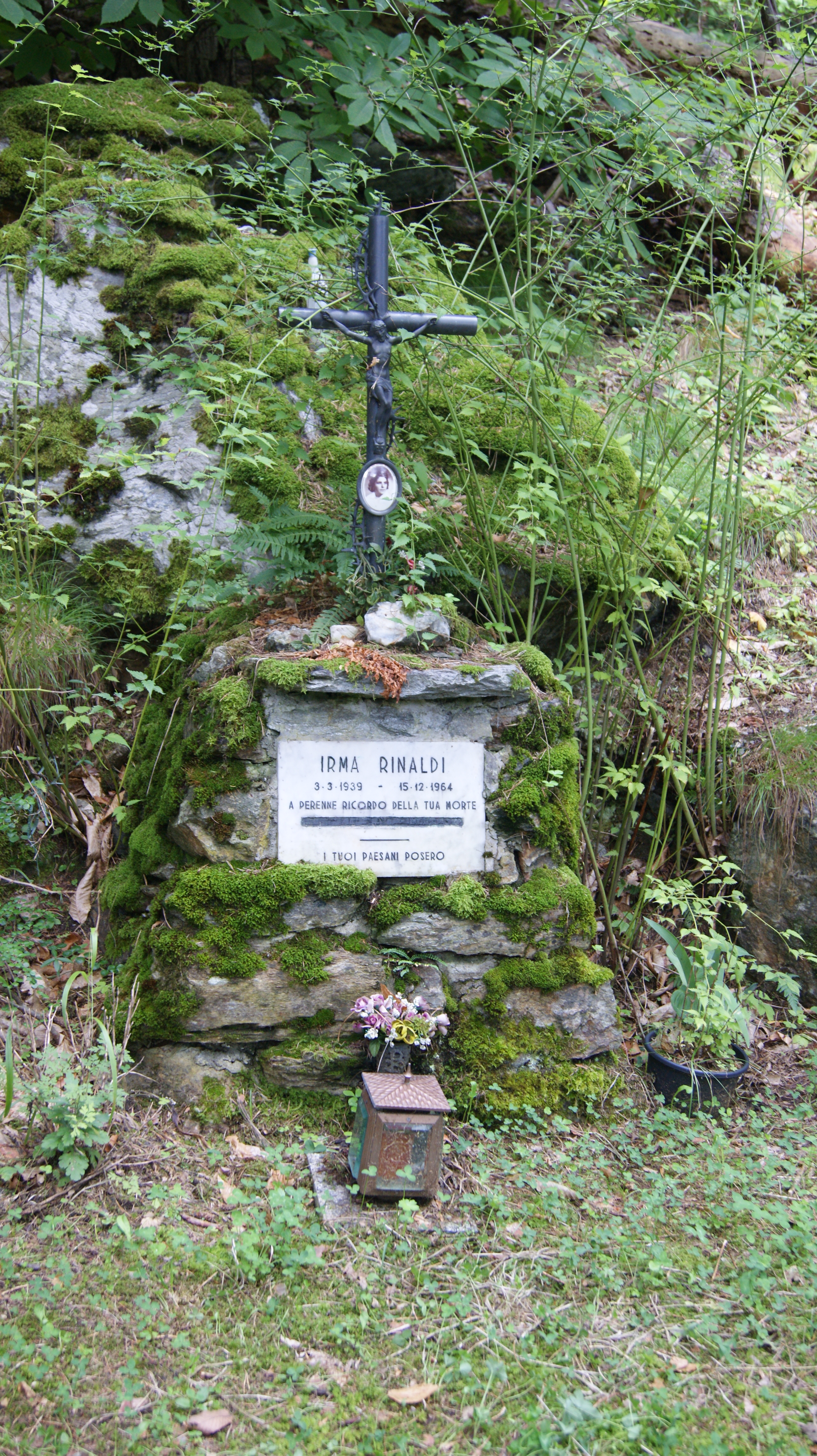 Hiking trail from Roncaiola to Baruffini. Roncaiola and Baruffini are hamlets and parts of Tirano in Italy. Memorial for Irma Rinaldi (smuggler).